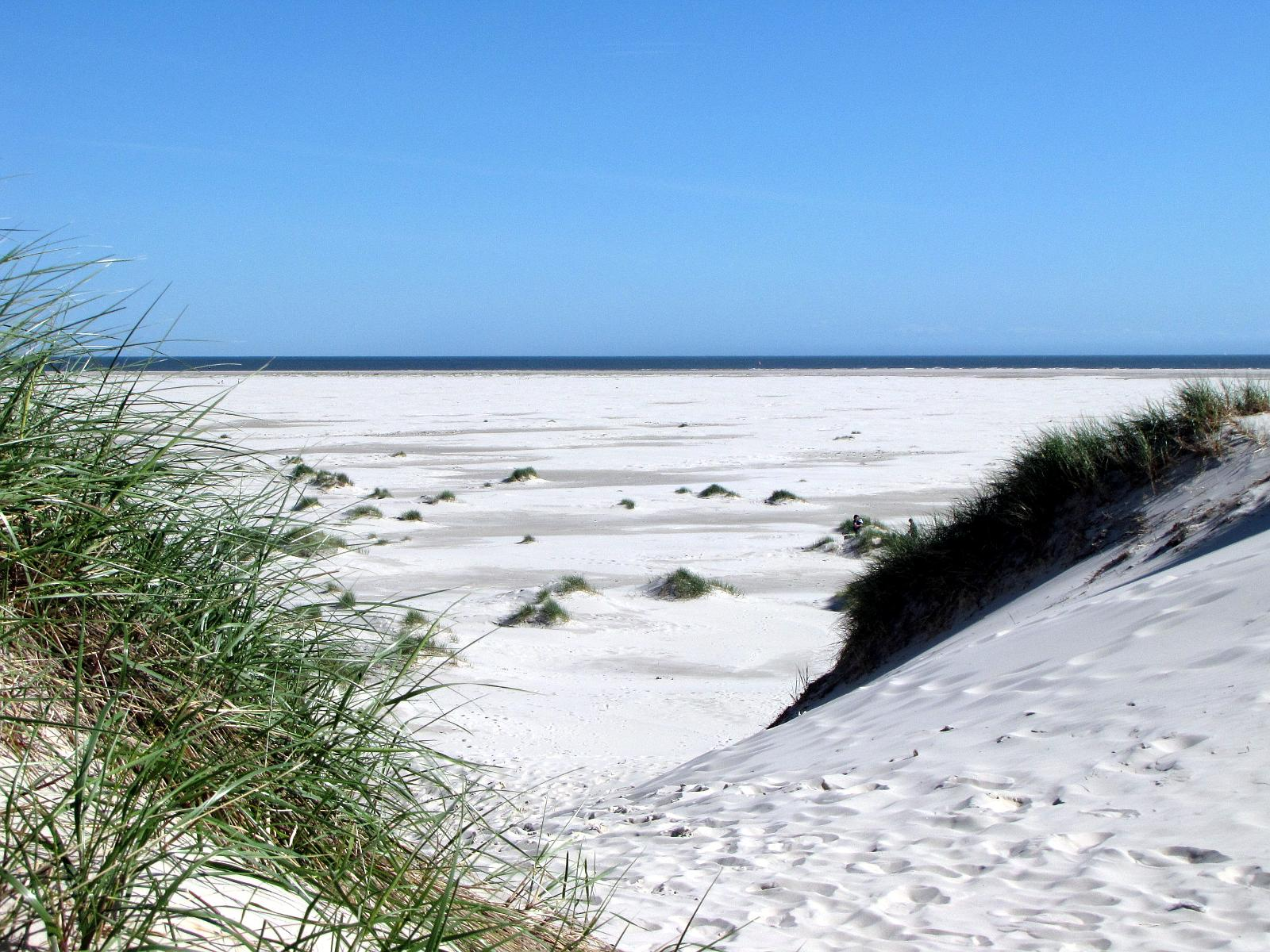 Germany / North Sea / Island Amrum: beach